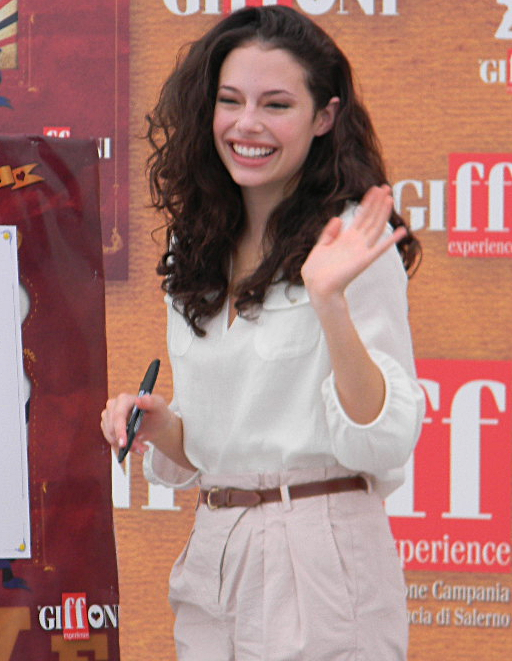 Chloe Bridges al Giffoni Film Festival 2010